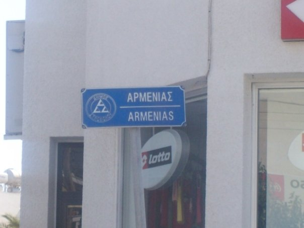 Armenias Street, Nicosia